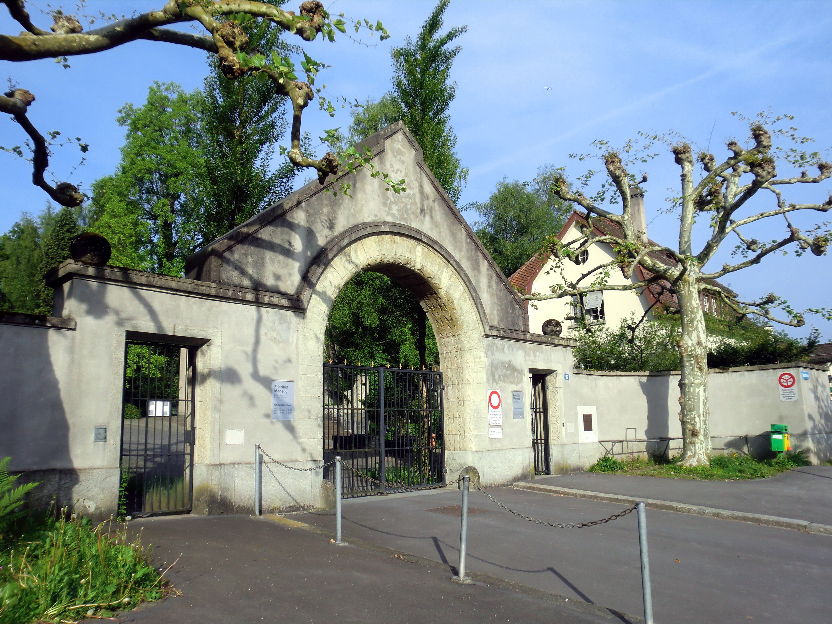 Nothern entrance gate to Friedhof Manegg, Zürich